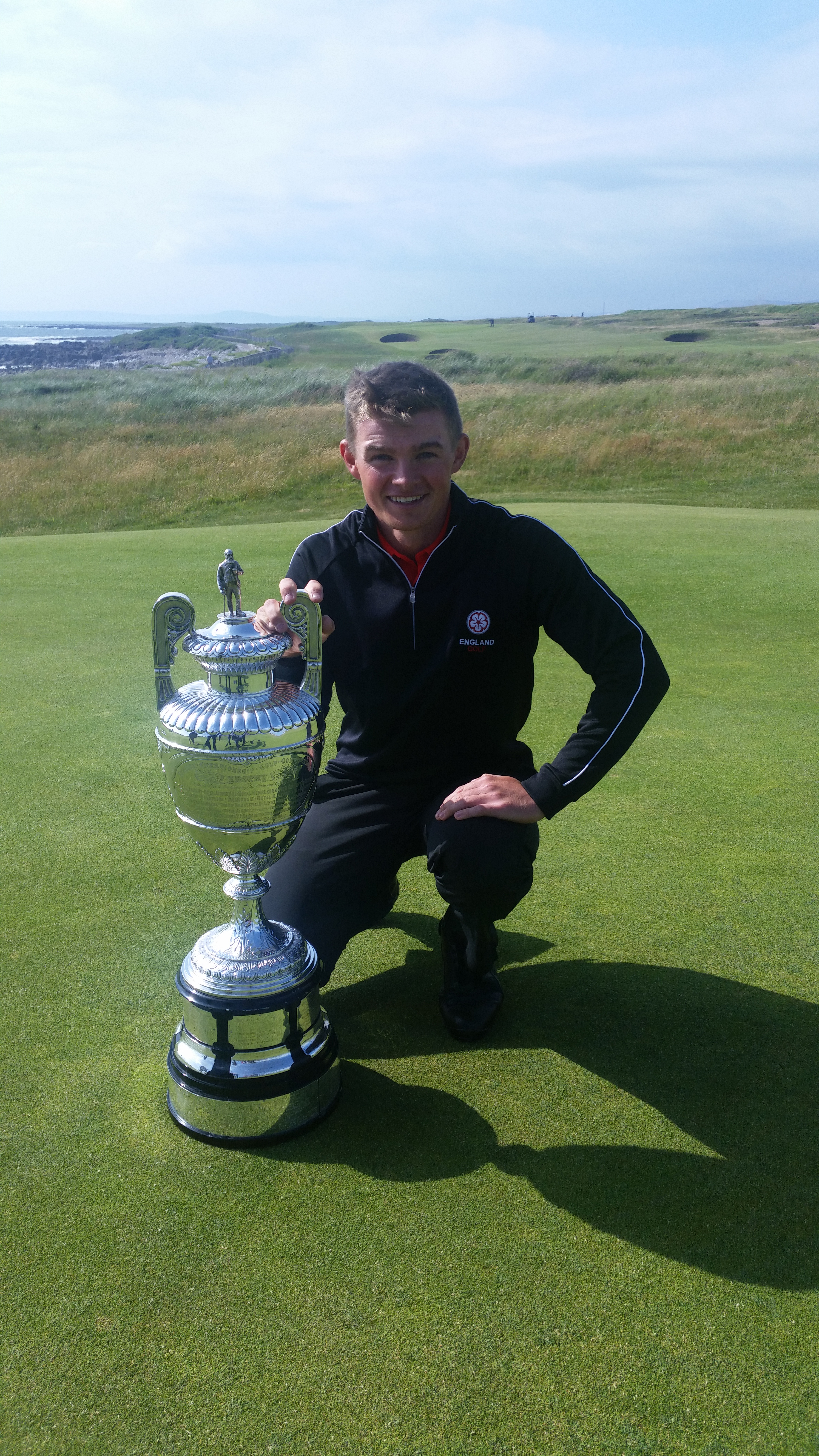 amateur champion